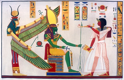 Rameses III censing and libating before Ptah-Sokar-Osiris, protected by winged Isis. Scene from tomb of Ramses III. (KV11)